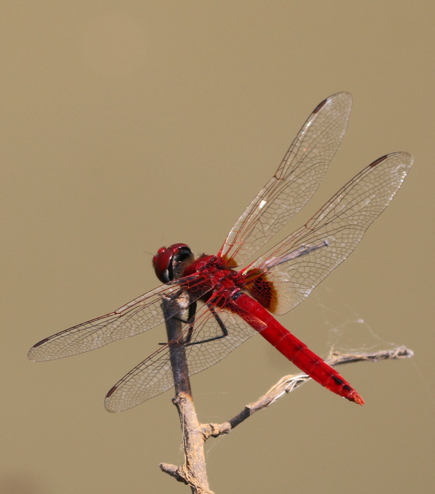 Greater Crimson Glider Urothemis signata